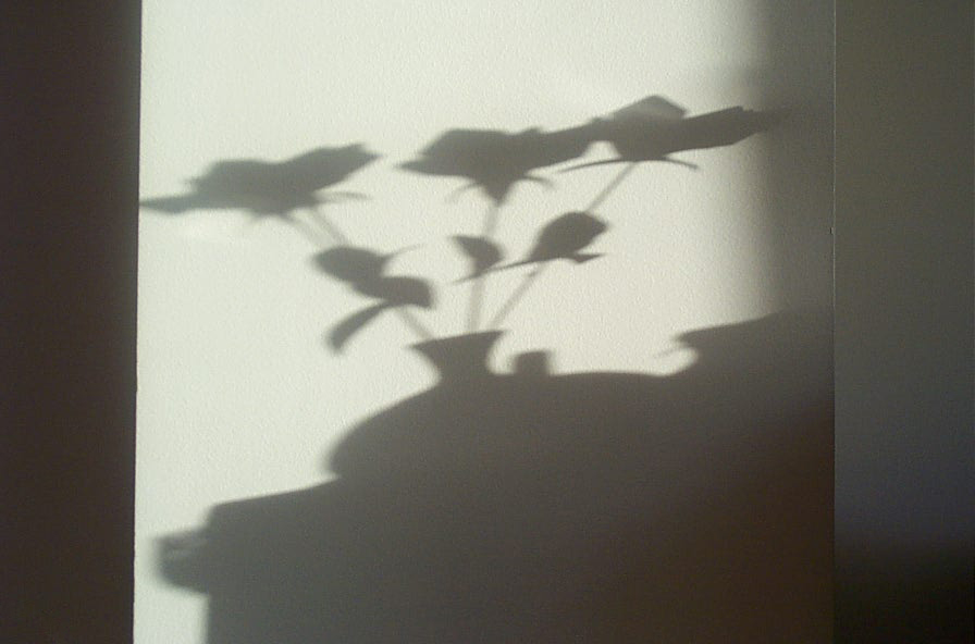 Shadow of flowers.